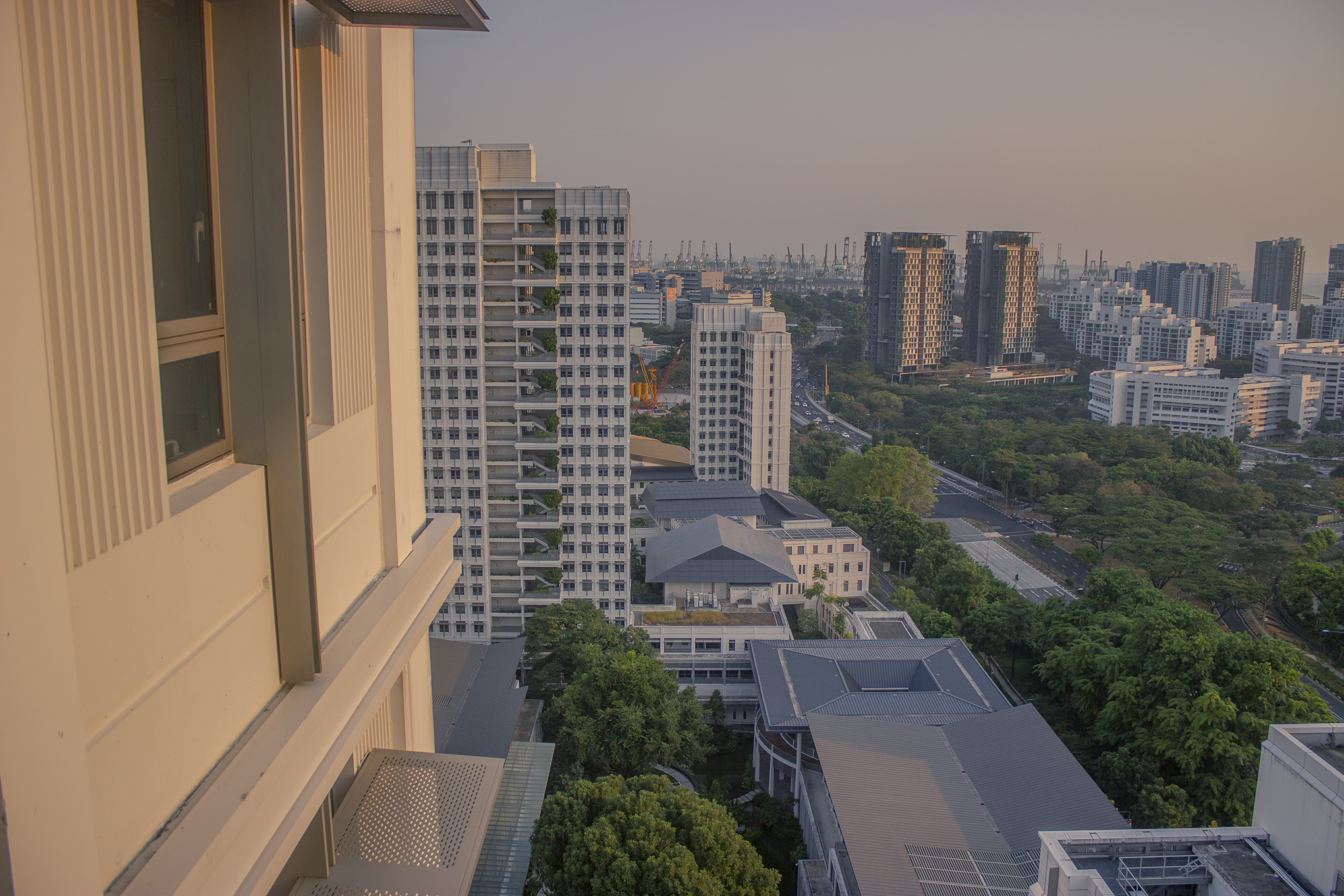 An overview of the Yale-NUS College campus as seen from Cendana College. Yale-NUS is a liberal arts college founded by the Yale University and the National University of Singapore.